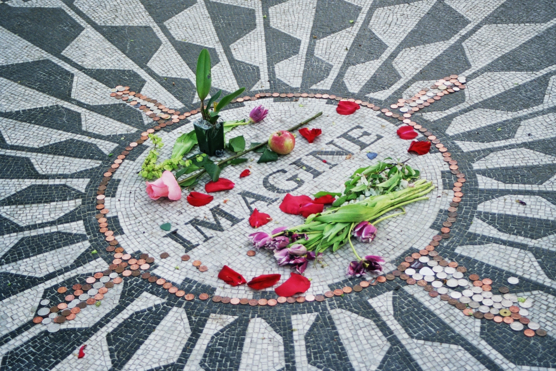 Picture of John Lennon's Strawberry Fields Forever Memorial